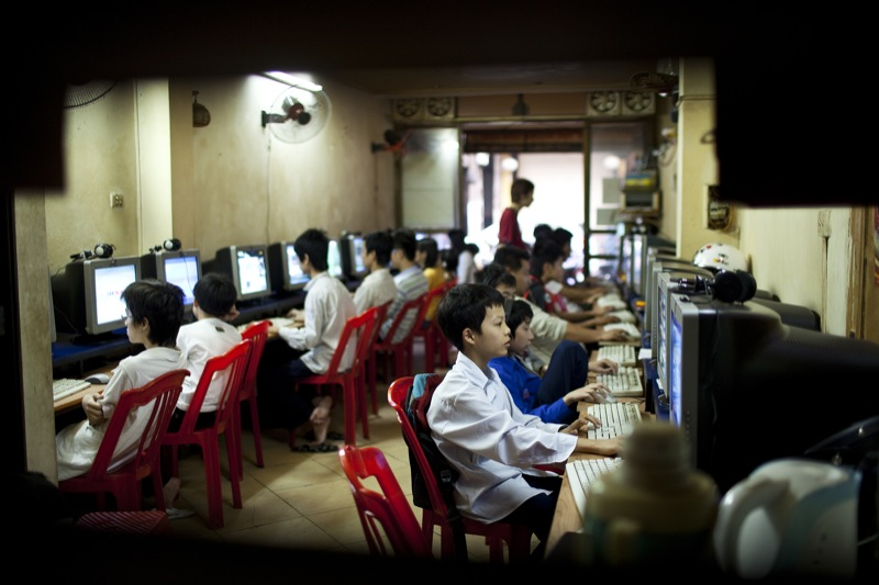 computers!